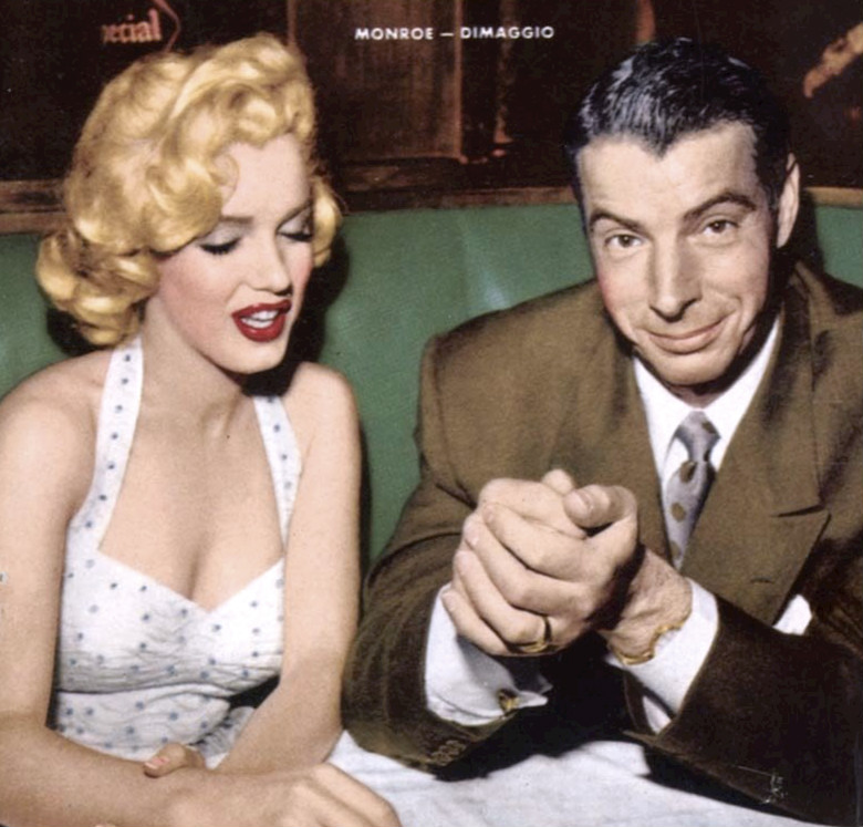 Photo of Marilyn Monroe and Joe DiMaggio from the cover of the January 1954 issue of Now magazine.